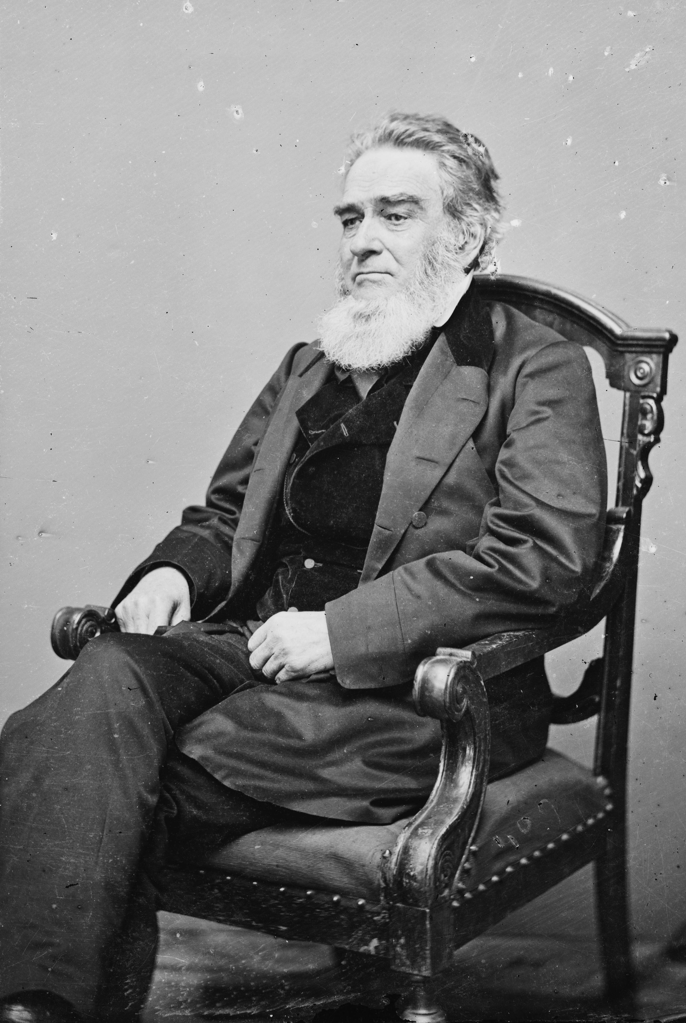 Edward Bates. Library of Congress description: "Edward Bates"